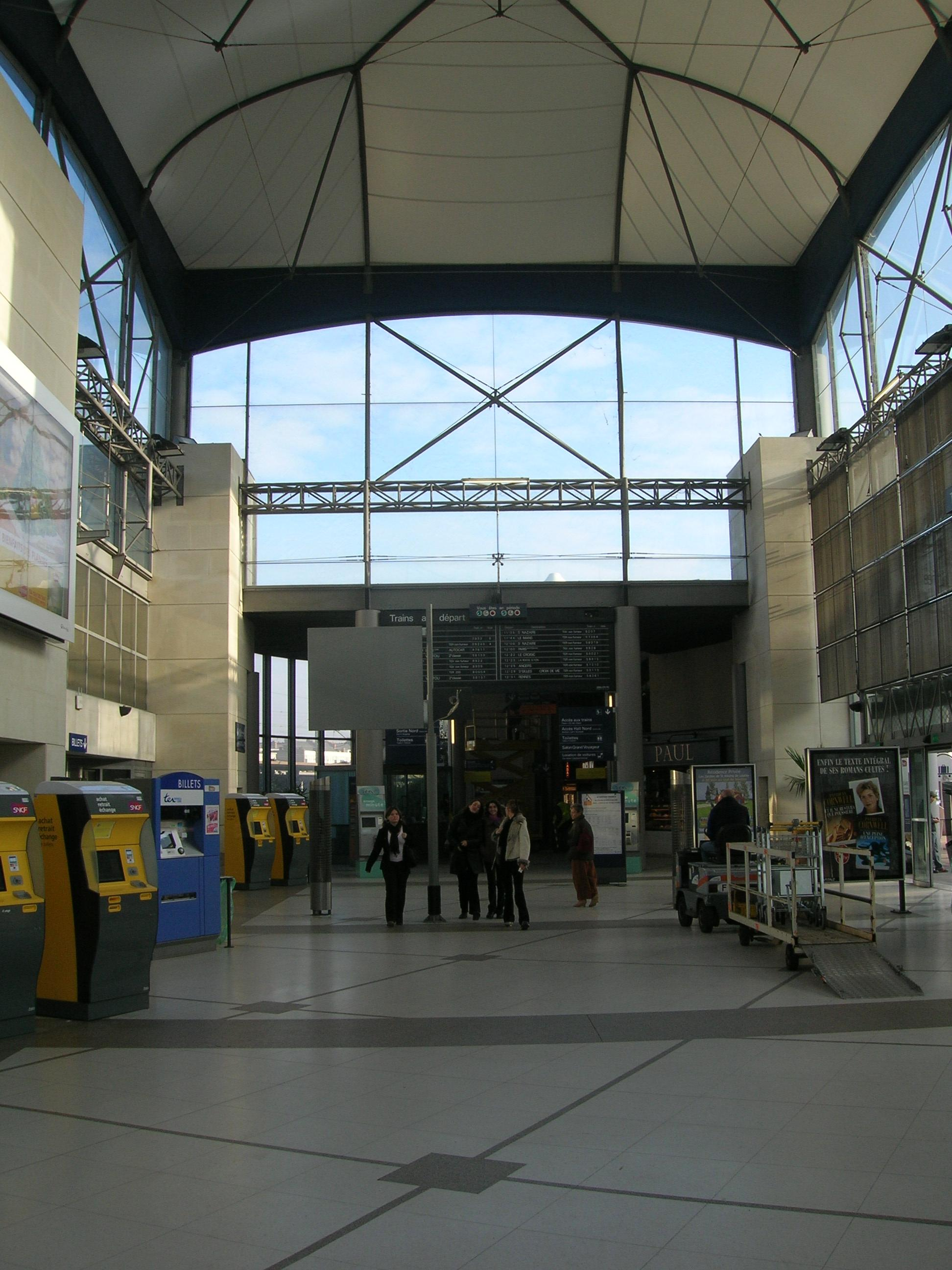 Nantes TGV station, southern entrance hall.